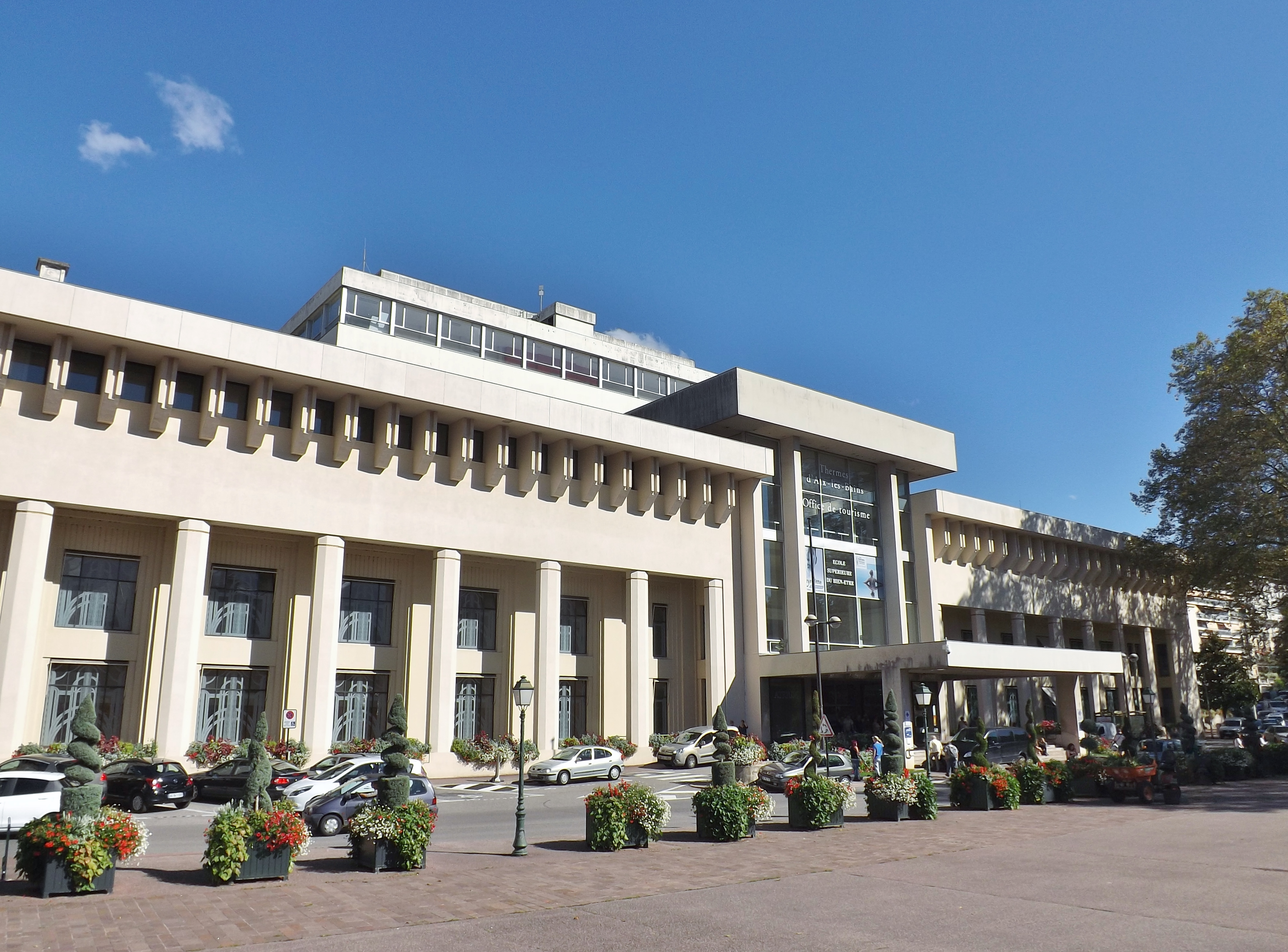 Sight of the Thermes nationaux (national thermae baths) of Aix-les-Bains in Savoie, France.